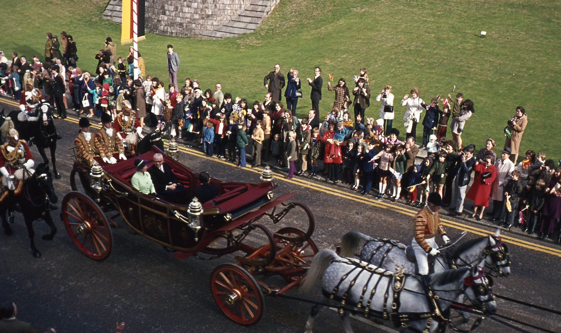 State Visit Gustav Heinemann Great Britain 1972